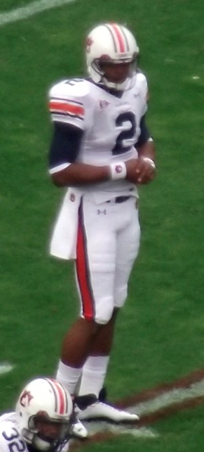 A cropped version of File:Auburn_offense_2010-11-26.jpg, showing Cam Newton leading Auburn's offense in the 2010 Iron Bowl.